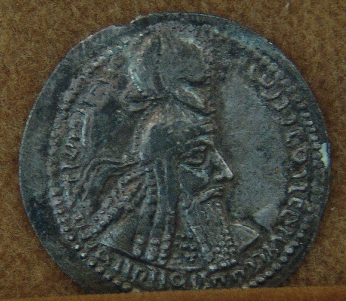 Coin of Ardashir Babakn In Malik National Museum of Iran